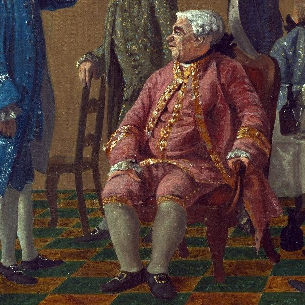 British Gentlemen at Sir Horace Mann’s Home in Florence – Thomas Patch ~ 1765. John Tylney, 2nd Earl Tylney is the stout man at left according to Christies